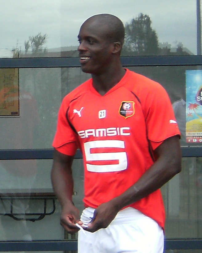 Victor Montaño before a friendly game between Stade rennais FC and Stade Malherbe de Caen in Ouistreham